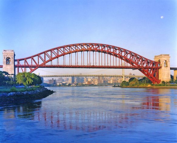 Hell Gate Bridge